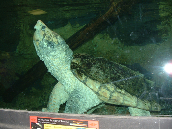 Photo by Angela Grider. Alligator Snapping Turtle at Zoo Atlanta.